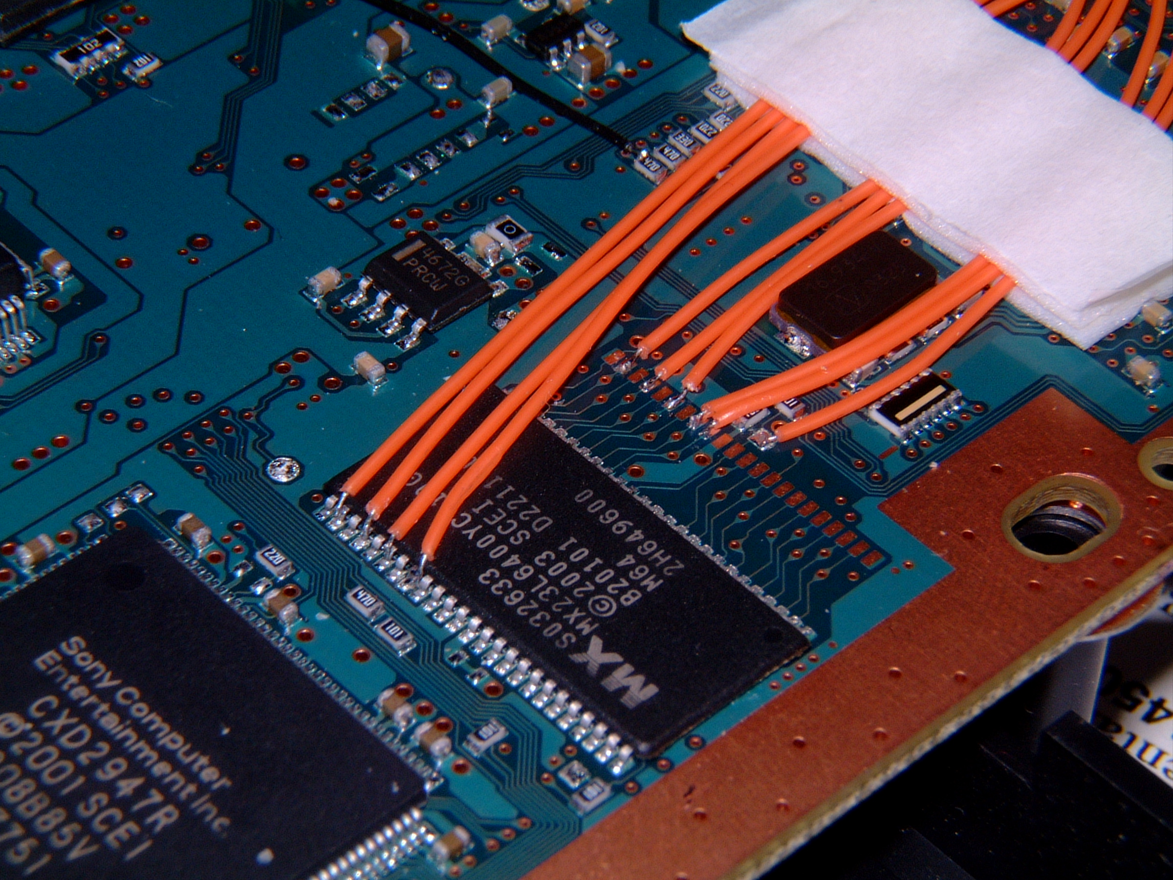 Image of the soldering points for the Playstation 2 BIOS.